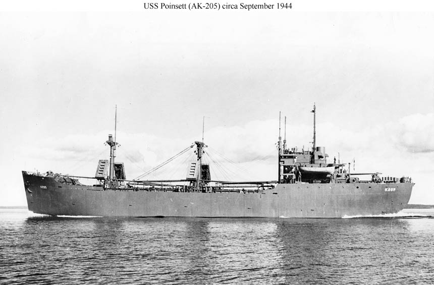 USS Poinsett (AK-205) underway, date and location unknown. US Maritime Commission photo